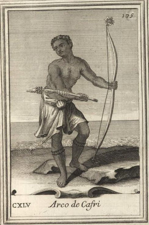 A musical bow. Engraving in Filippo Bonanni: Gabinetto Armonico pieno d'Instromenti. Roma, 1723